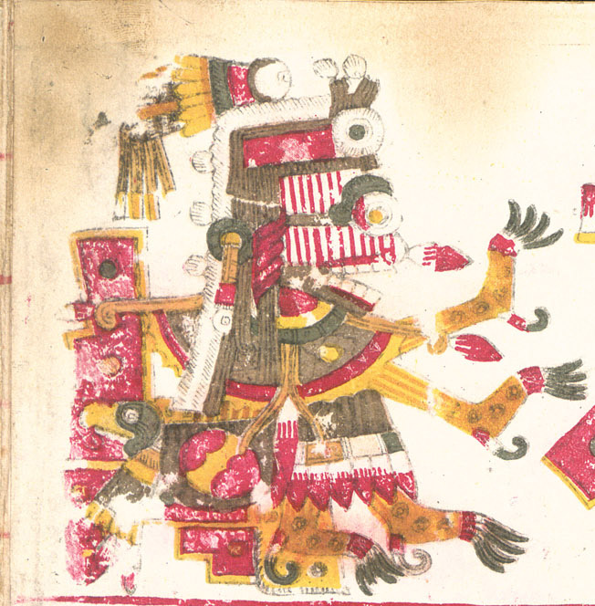 A drawing of Itzpapalotl, one of the deities described in the Codex Borgia